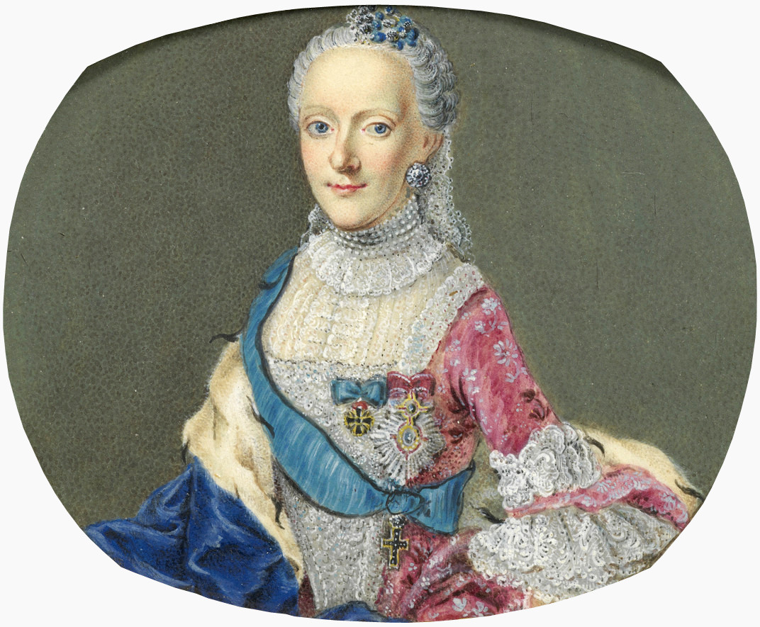 Theresa Natalia (1728-78) is wearing the blue ribbon of the Order of Gandersheim, the cross of St Catherine, another cross and a blue jewelled crucifix at her waist. She was one of the daughters of Albrecht, Duke of Brunswick-Wolfenbüttel. In 1767, she became Abbess of Gandersheim, Germany, a community of unmarried daughters from noble families, who were not under religious vows.